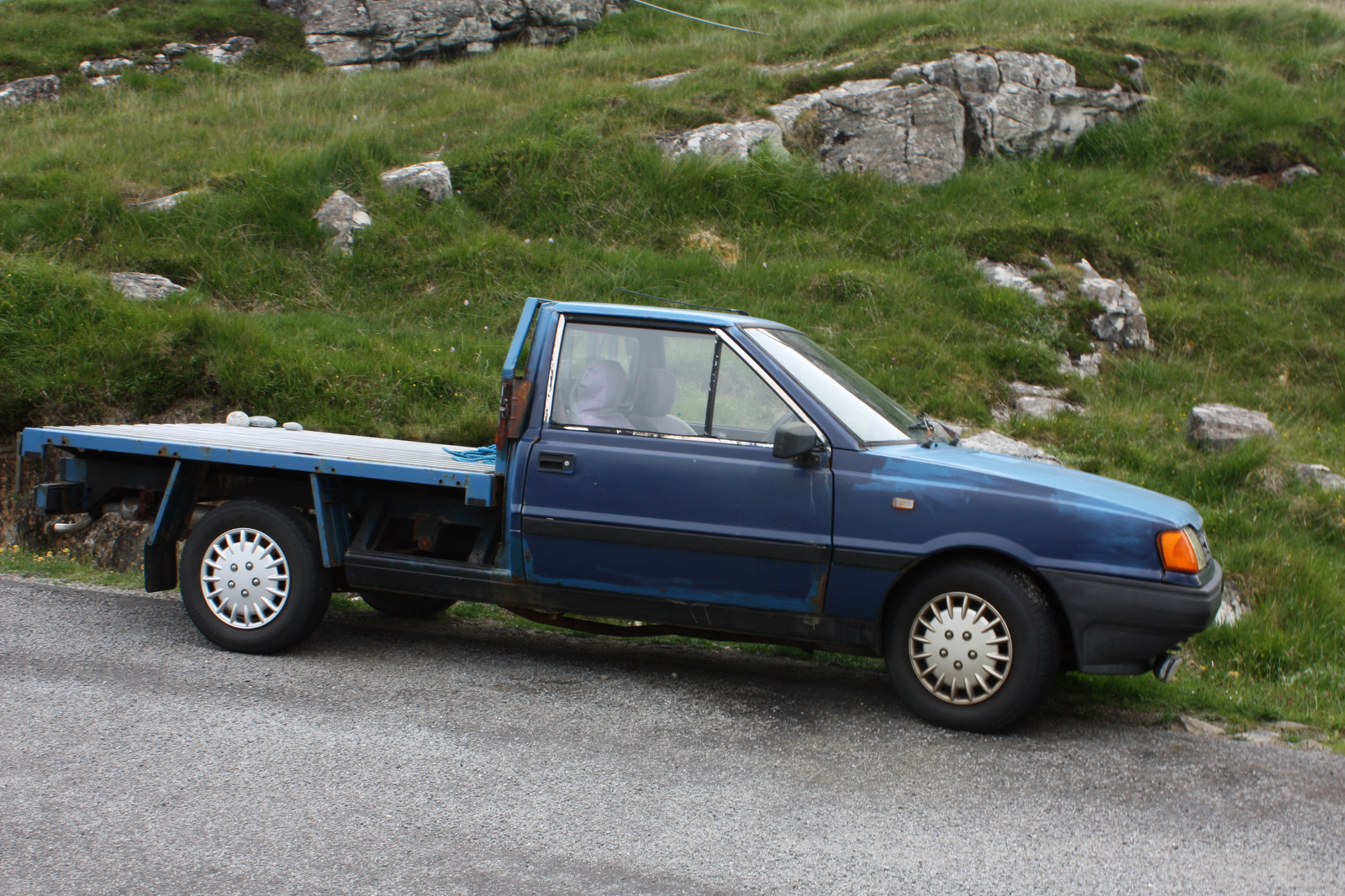 FSO Caro Pick-up ST, Outer Hebrides, Scotland.